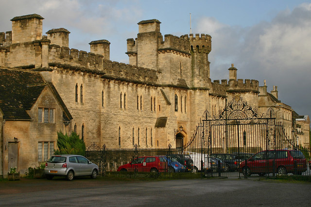 Cirencester Park Gates and Cecily Hill Barracks